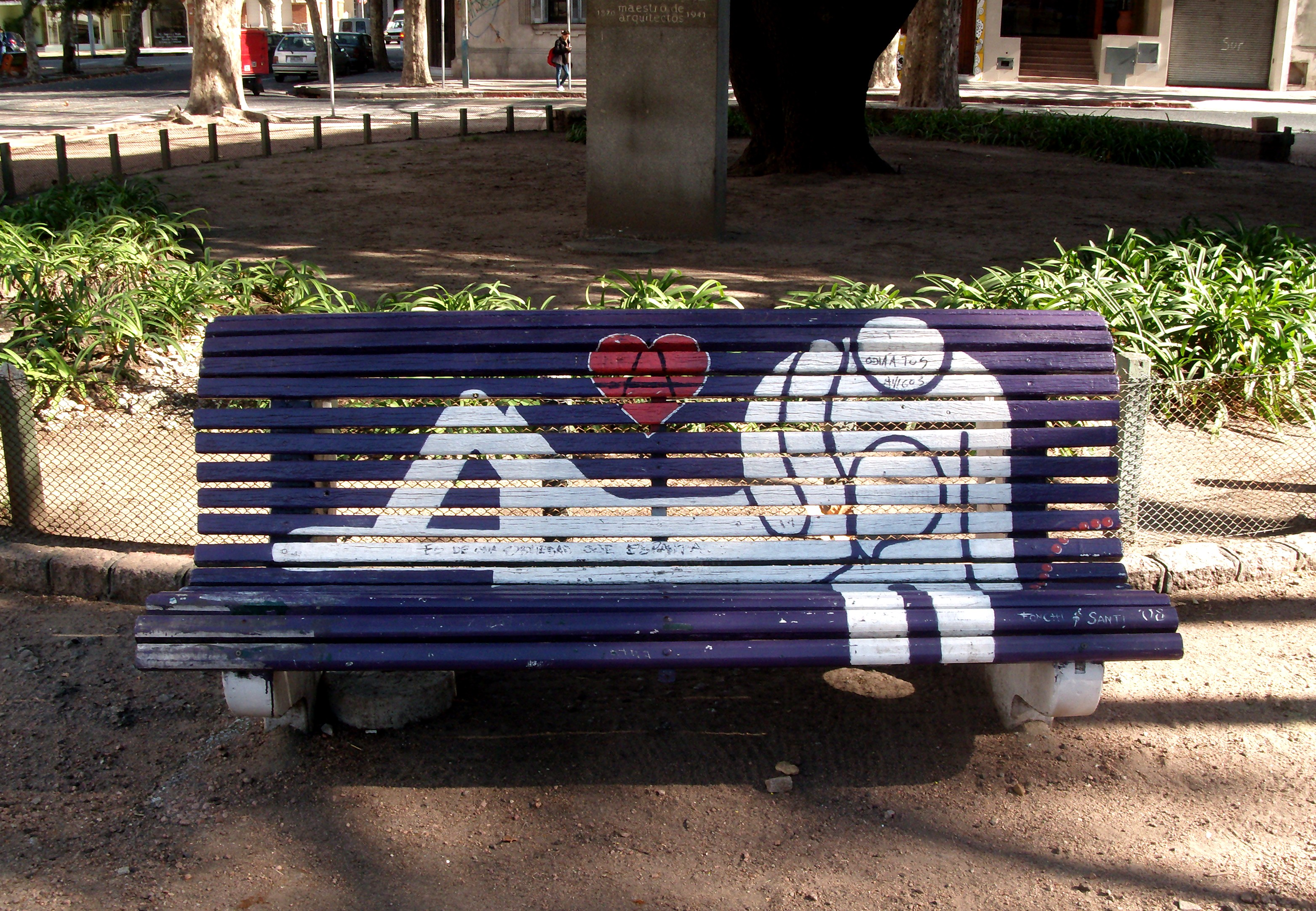 Amor